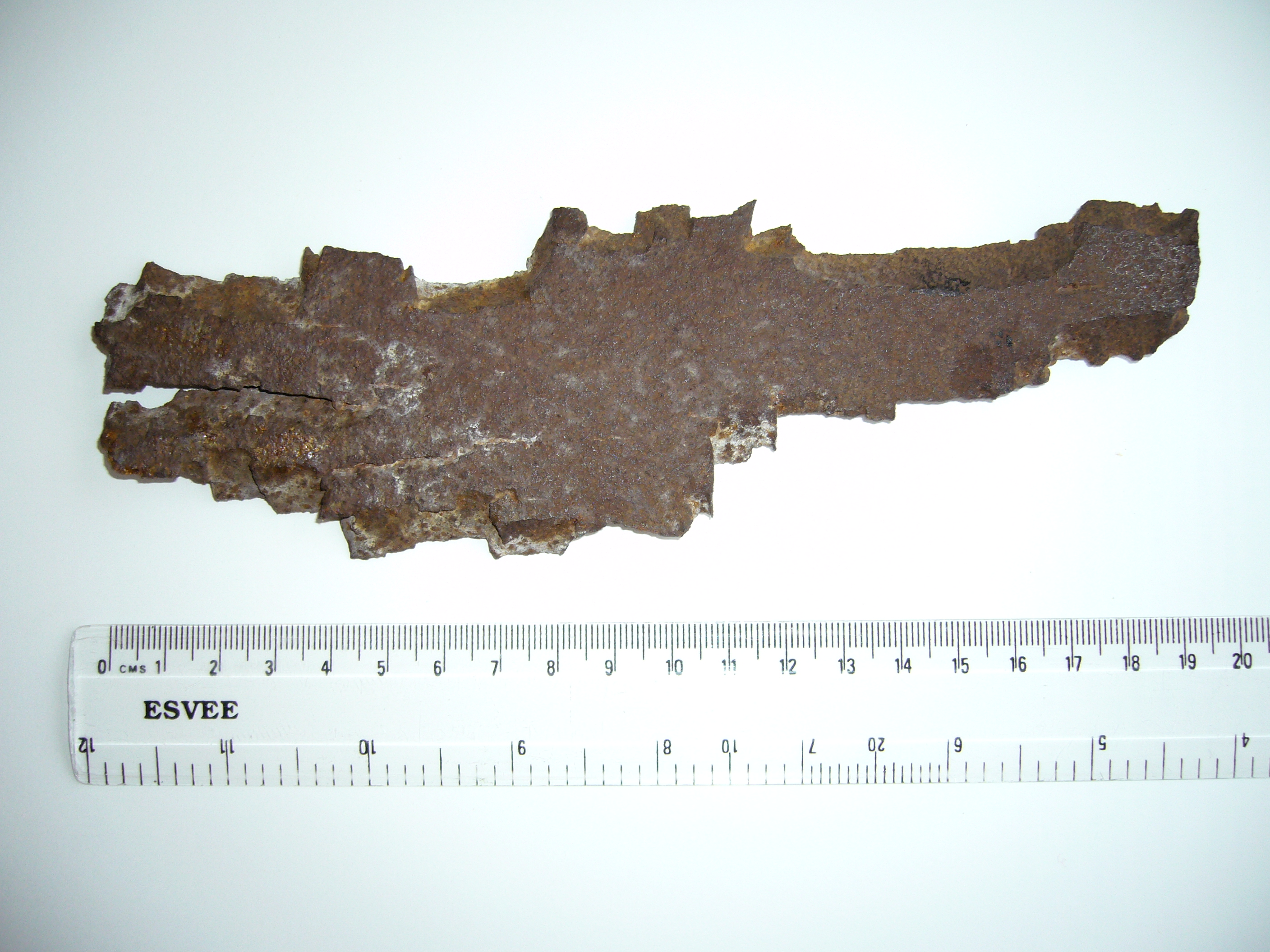 Steel fragment of a high-explosive shell, dating from the 1990s Gulf War. Found in Kuwait. Technically, this is a fragment of a large artillery shell. However, many people would refer to it as shrapnel. Note the highly characteristic jagged edges caused by detonation of the explosive filling. Required attribution is: Photo by Tom Oates.